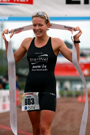 Triathlete Daniela Sämmler in 2010